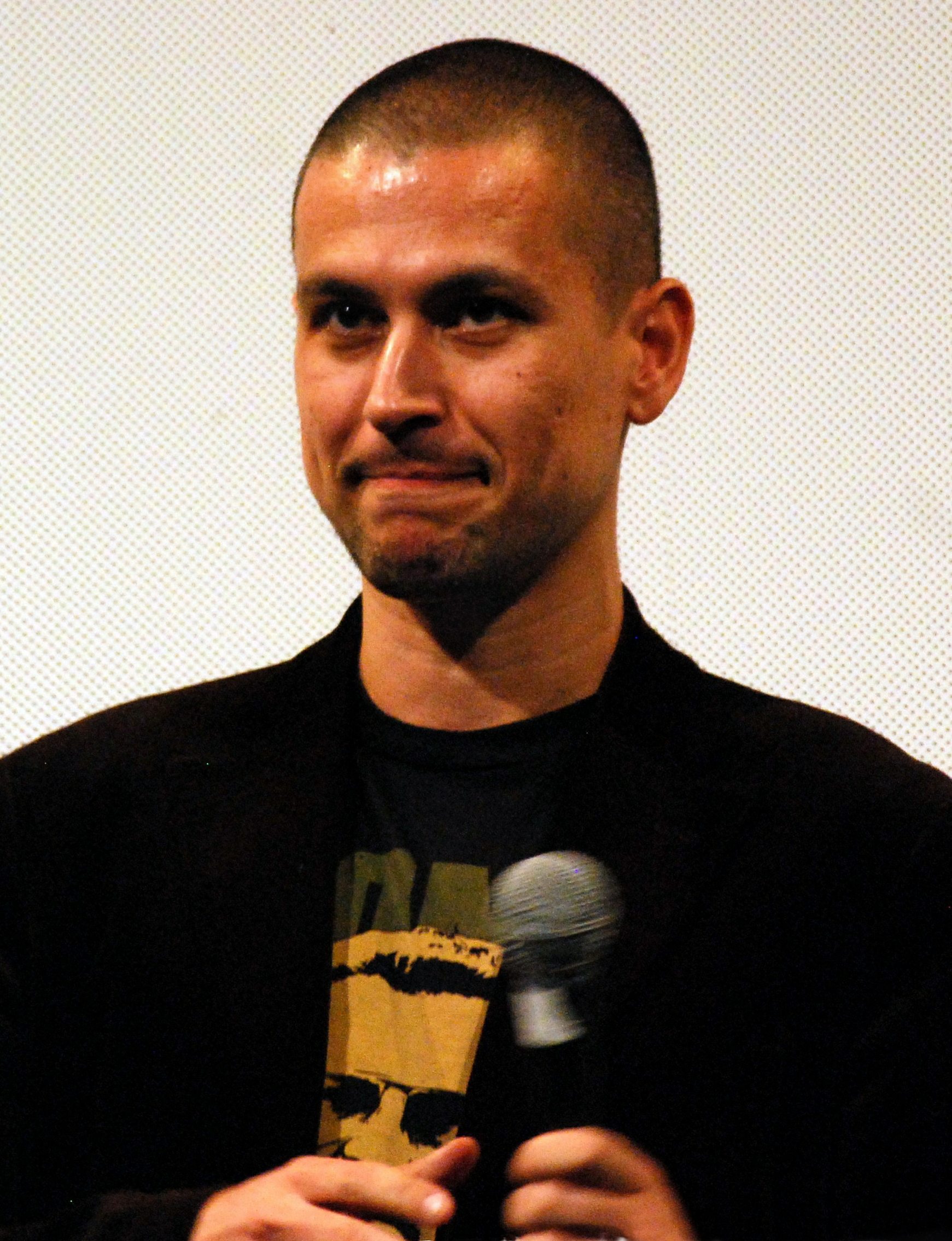 Spanish director Rodrigo Cortés